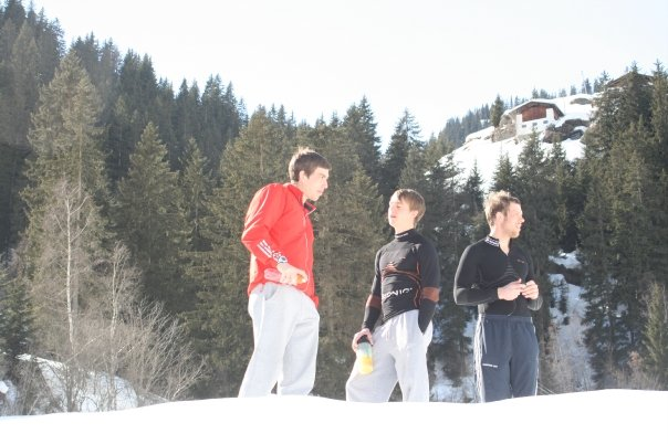 Craig Driffill (left), Steve Hill (center) and Rob Chudley at IBU-Cup Ridnaun 2009